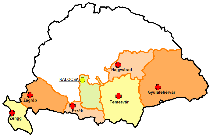 Roman Catholic Archdiocese of Kalocsa, 18. century